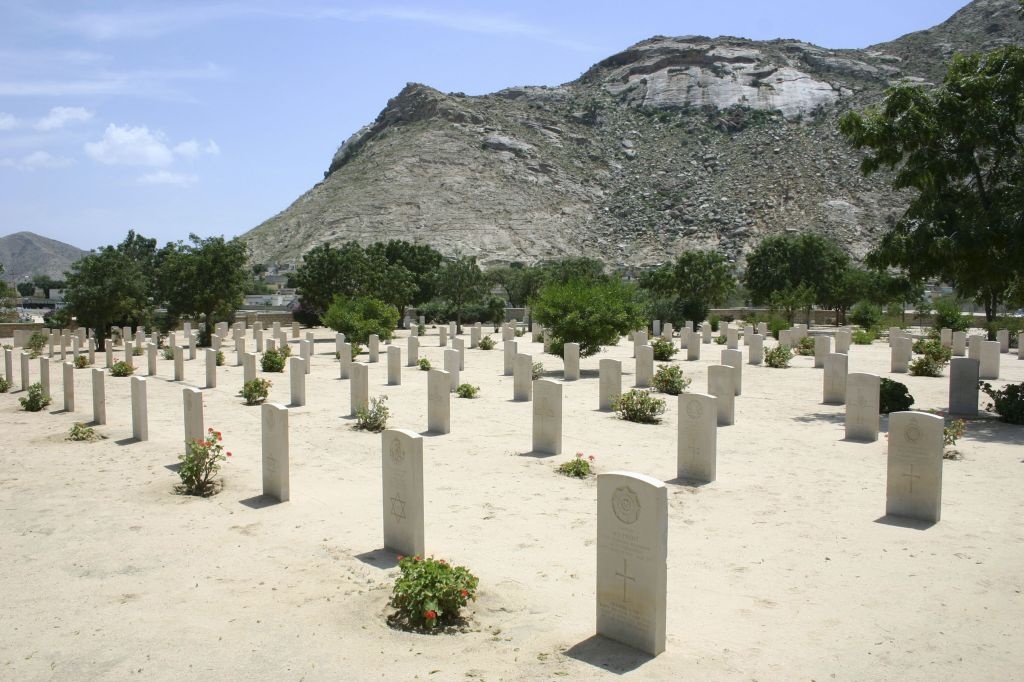 Battle of Keren Battlefield - Military Cemetery